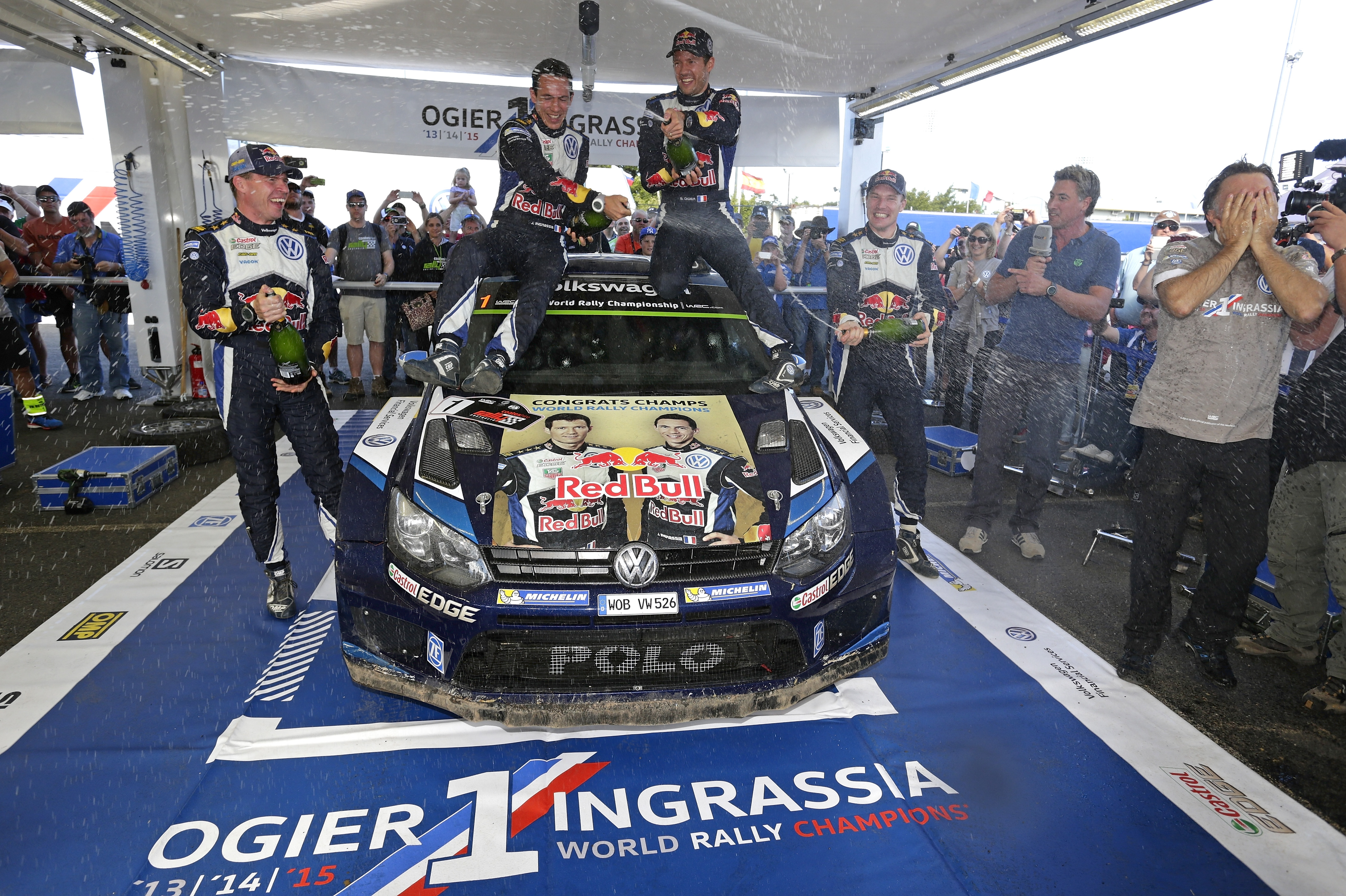 Sébastien Ogier and co-driver Julien Ingrassia celebrate their win in the 2015 Rally Australia. On the left is Miikka Anttila (co-driver for Latvala) and on the left is Jari-Matti Latvala, with team principal Jost Capito with his hands over his face.